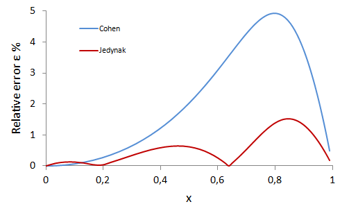 Graphs made in Excel